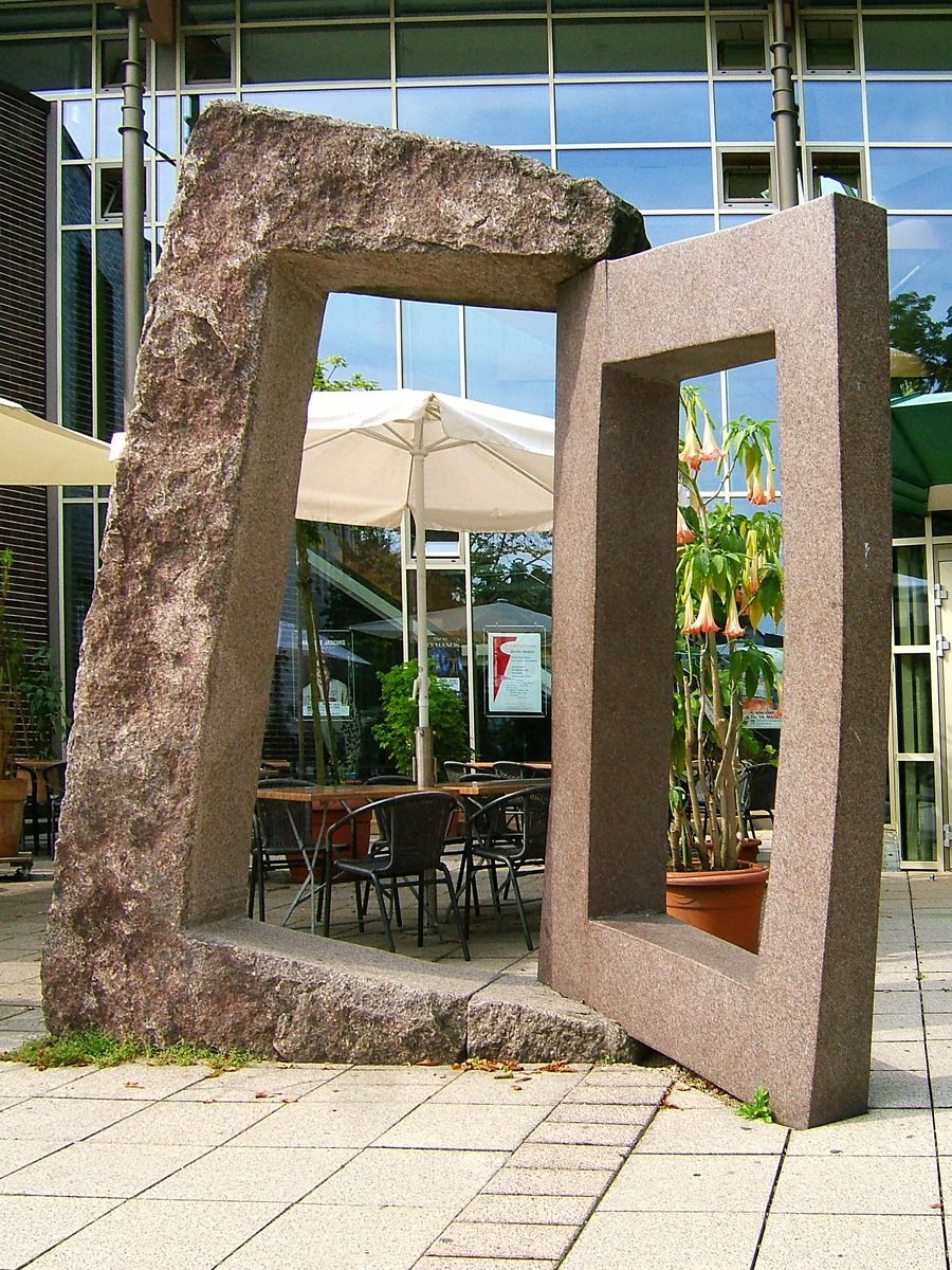 sculpture in Schorndorf, Germany